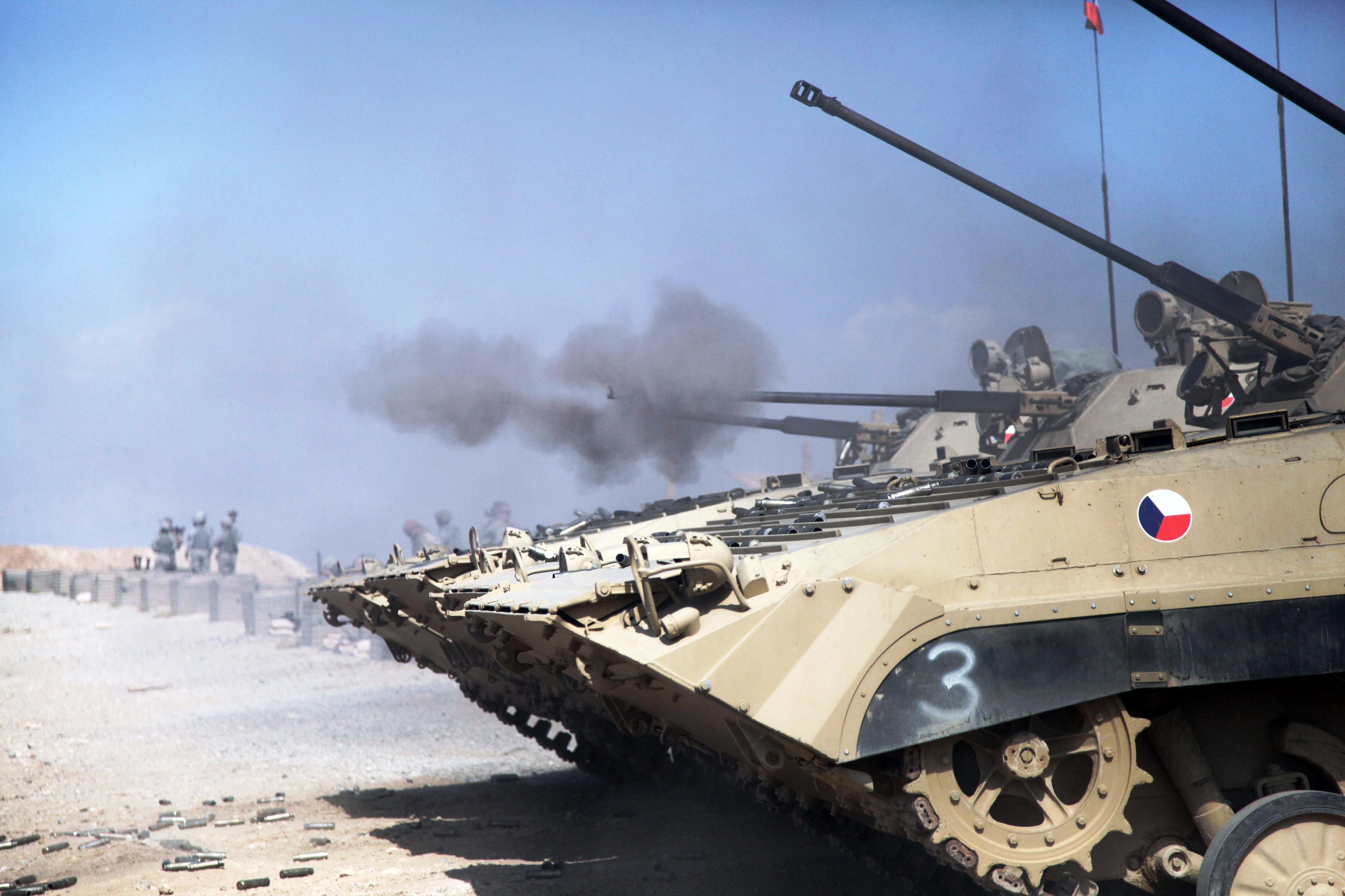 A round leaves the 30mm cannon of a Czech-made BVP2 Infantry Combat Vehicle Sept. 30, 2010, at Forward Operating Base Altimur, Logar province, Afghanistan.